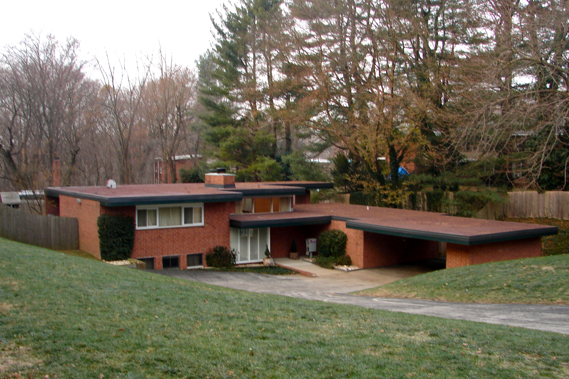 House designed by Oskar Stonorov in 1956 at 709 Davidson St., Chestnut Hill, Philadelphia, Pennsylvania. Near 725 Davidson and the Cherokee Village apartment complex, both also designed by Stonorov. In Chestnut Hill Historic District on the NRHP